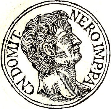 Gnaeus Domitius Ahenobarbus was a close relative to the Roman Emperors of the Julio-Claudian dynasty.